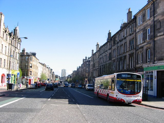 Leith Walk. The infamous bar studded strip linking Edinburgh with its port. Taken in Pilrig, NT266753 looking downhill towards Leith Centre